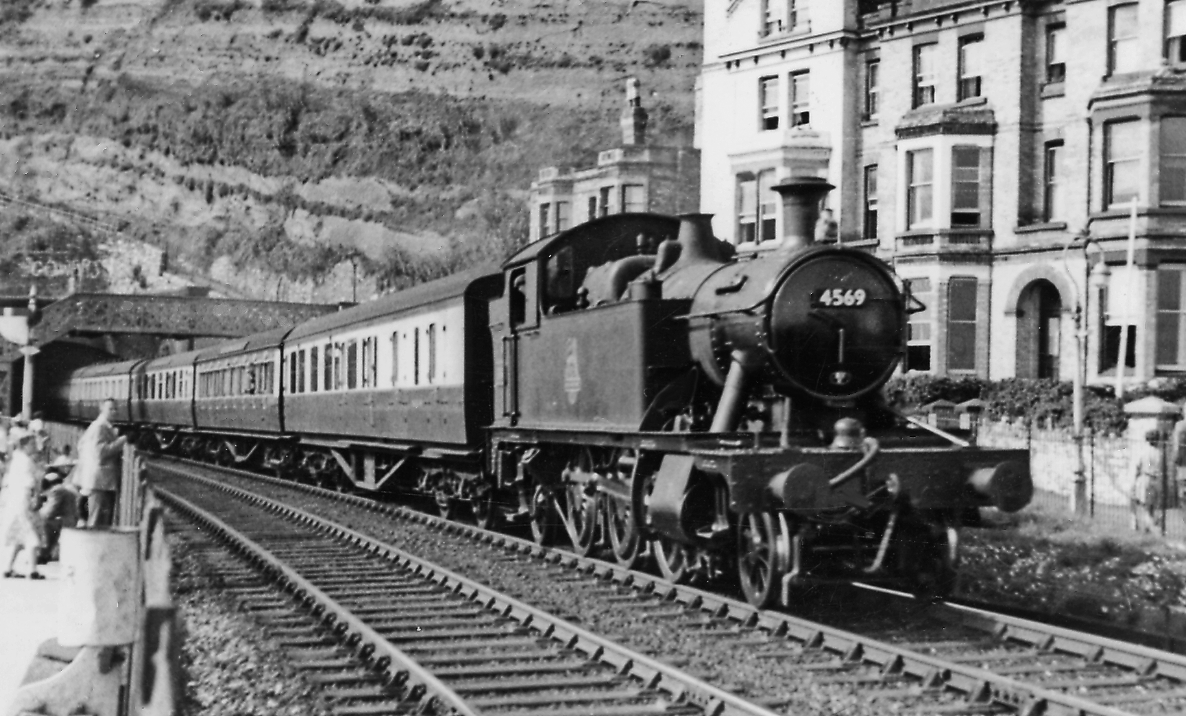 Kingswear - Exeter stopping train emerging from Kennaway Tunnel at Dawlish. View southward, towards Newton Abbot and Plymouth/Penzance/Kingswear: ex-GW South Devon main line. The locomotive is Churchward-design '4500' class No. 4569 (built 10/24, withdrawn 8/64). In this view, some interest is being taken by the people on the sea-front.